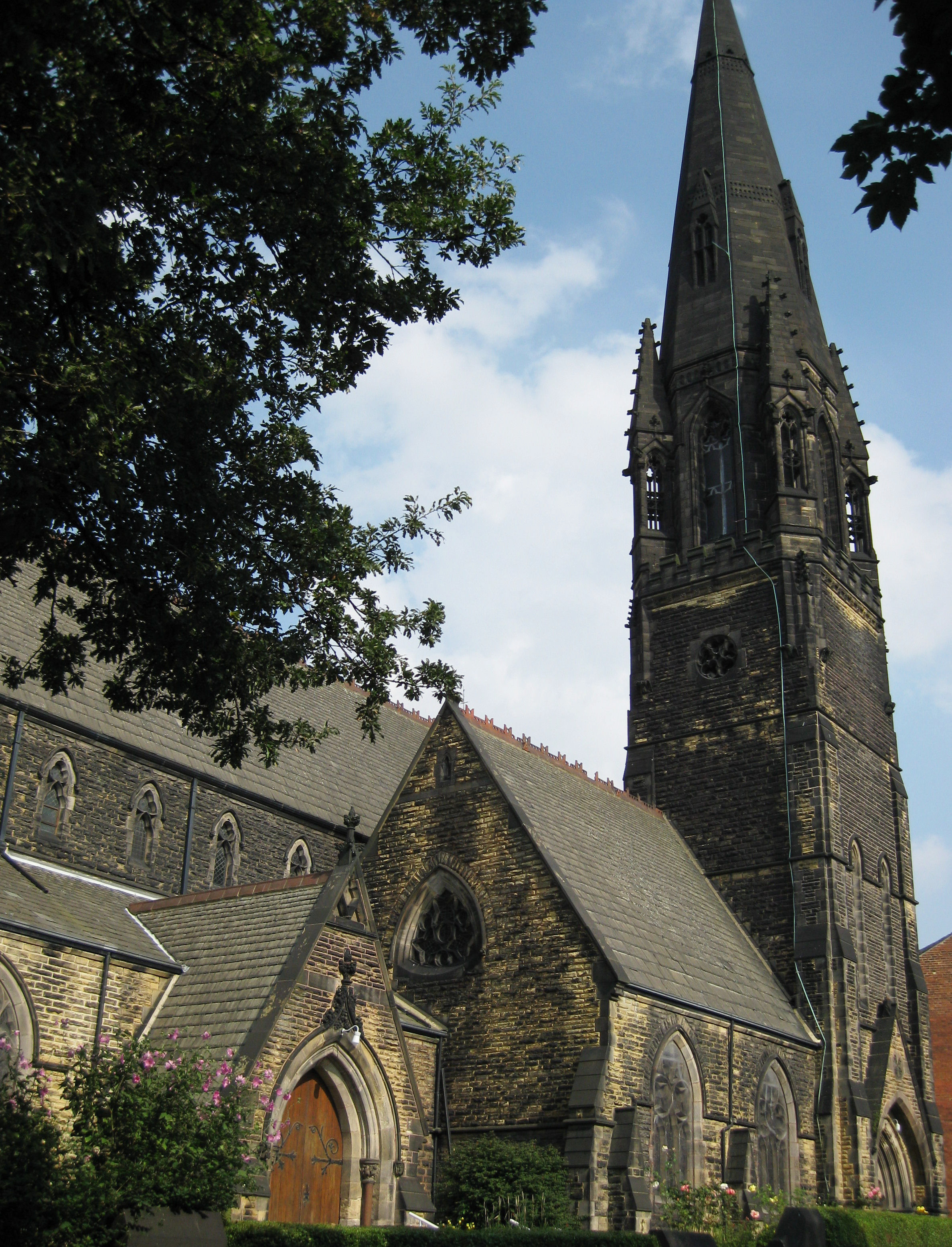 Church of England parish church of St Augustine of Hippo, Wrangthorn, Hyde Park Terrace, Leeds, England